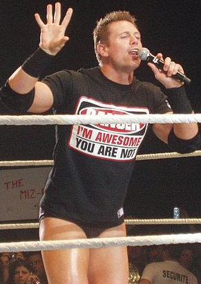 miz in house show